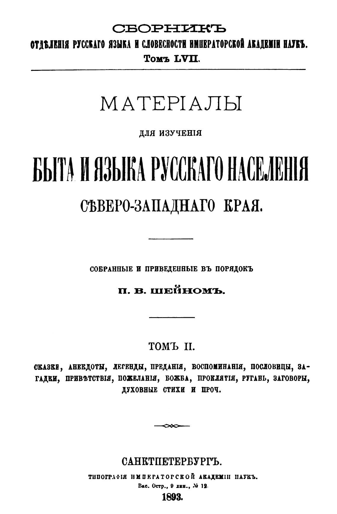 title page of the book: "Шейн П.В. Материалы для изучения быта и языка русского населения Северо-Западного края. Т. II", 1893 AD